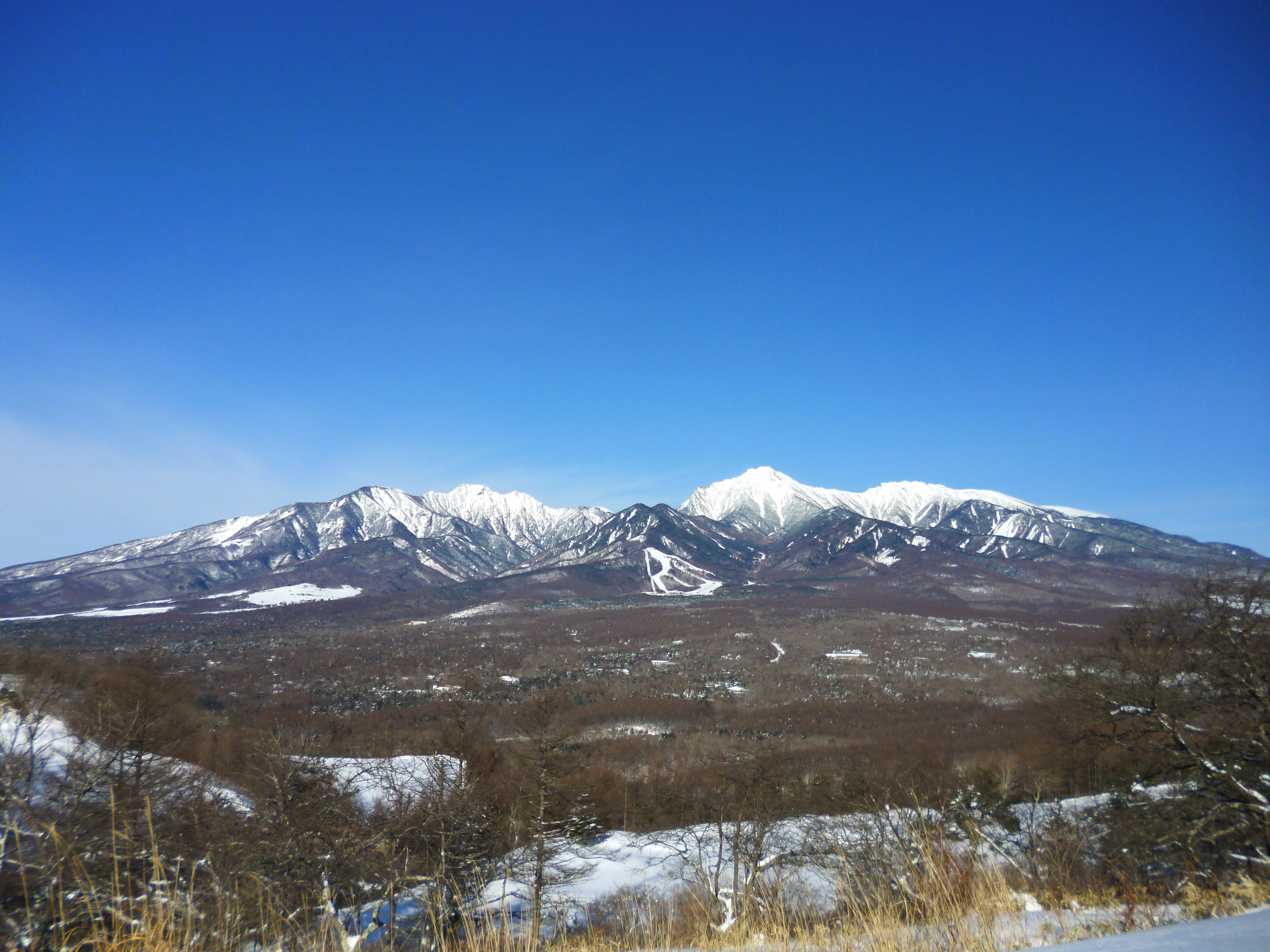 Yatsugatake Mountains in Nagano Prefecture and Yamanashi Prefecture, Japan. A view from Hirasawa Pass in Minamimaki, Nagano.